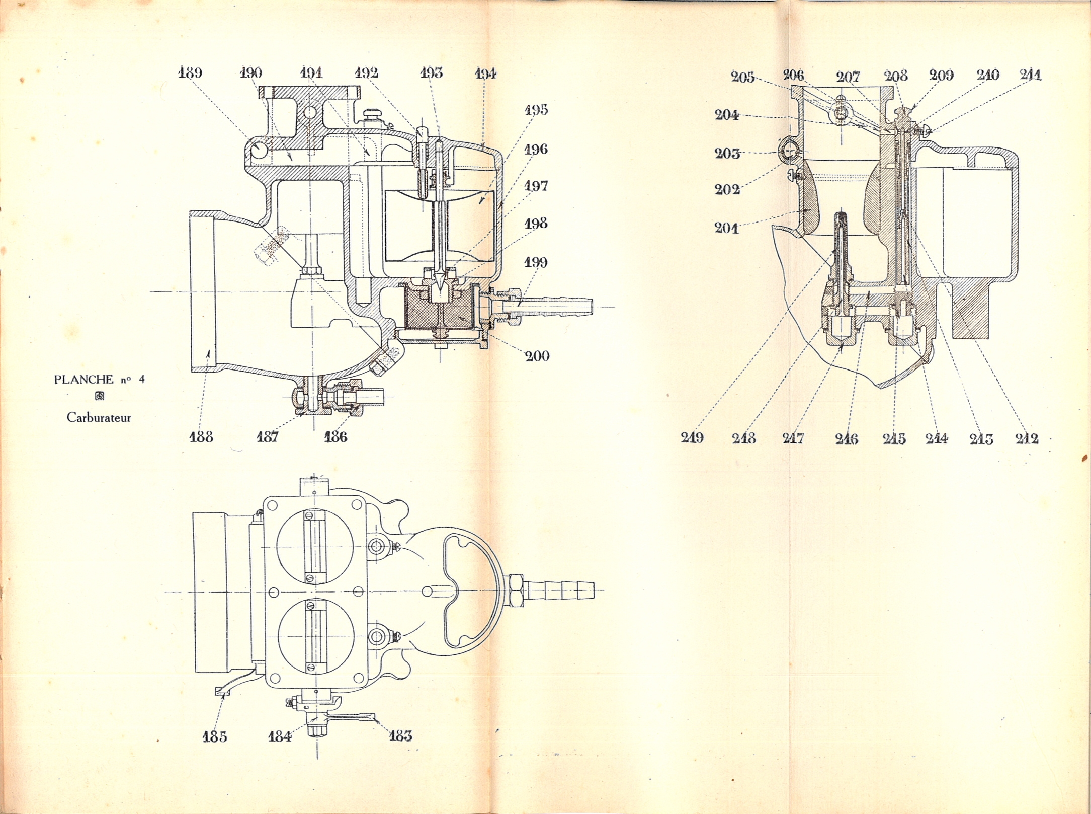 Fig. drawing 4 «Zenith» carburettor section Manual for the Renault 8 Bd engine See other images from this source in 'Renault 190HP aircraft engine manual'